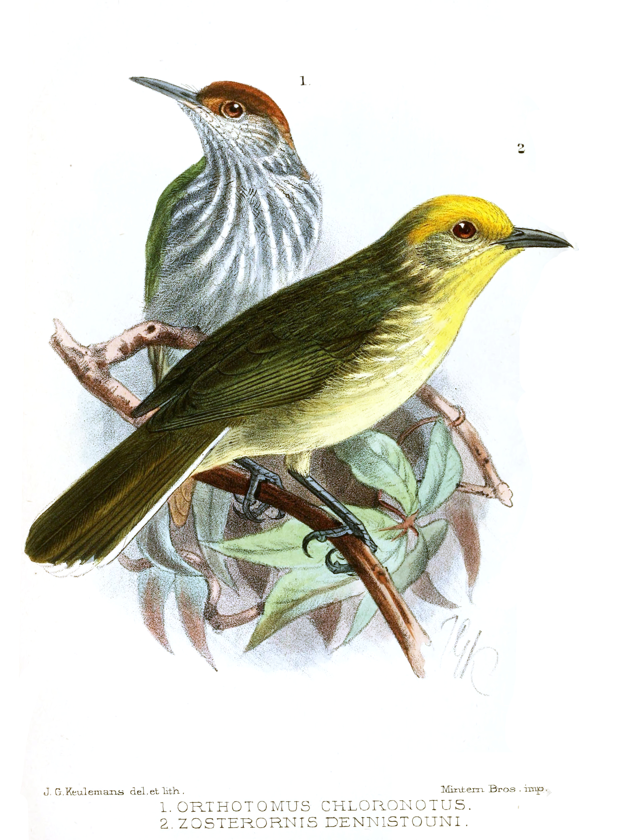 Orthotomus chloronotus (bird name has changed, please help retrieve the current one) Zosterornis dennistouni (bird name has changed, please help retrieve the current one)